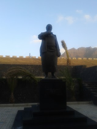 The International Airport Cesaria Evora on São Vicente Island, Cape Verde